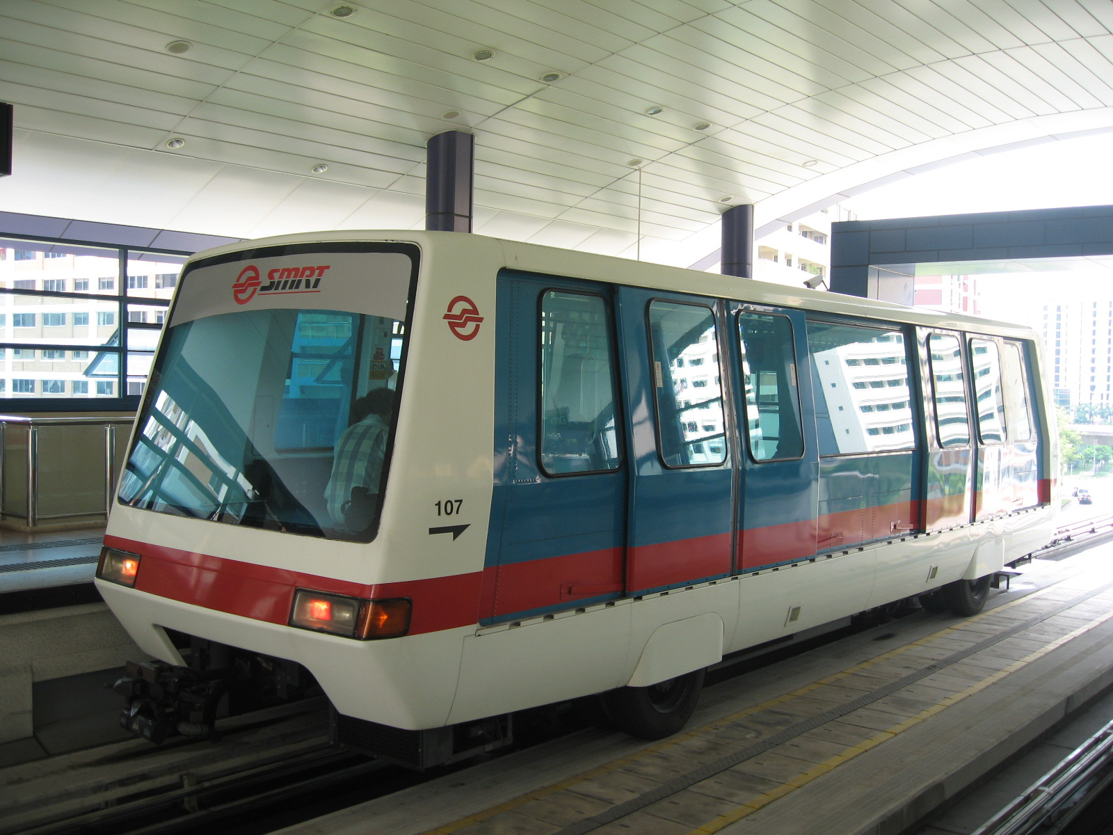 Bombardier CX-100 cars exterior, Bukit Panjang LRT.